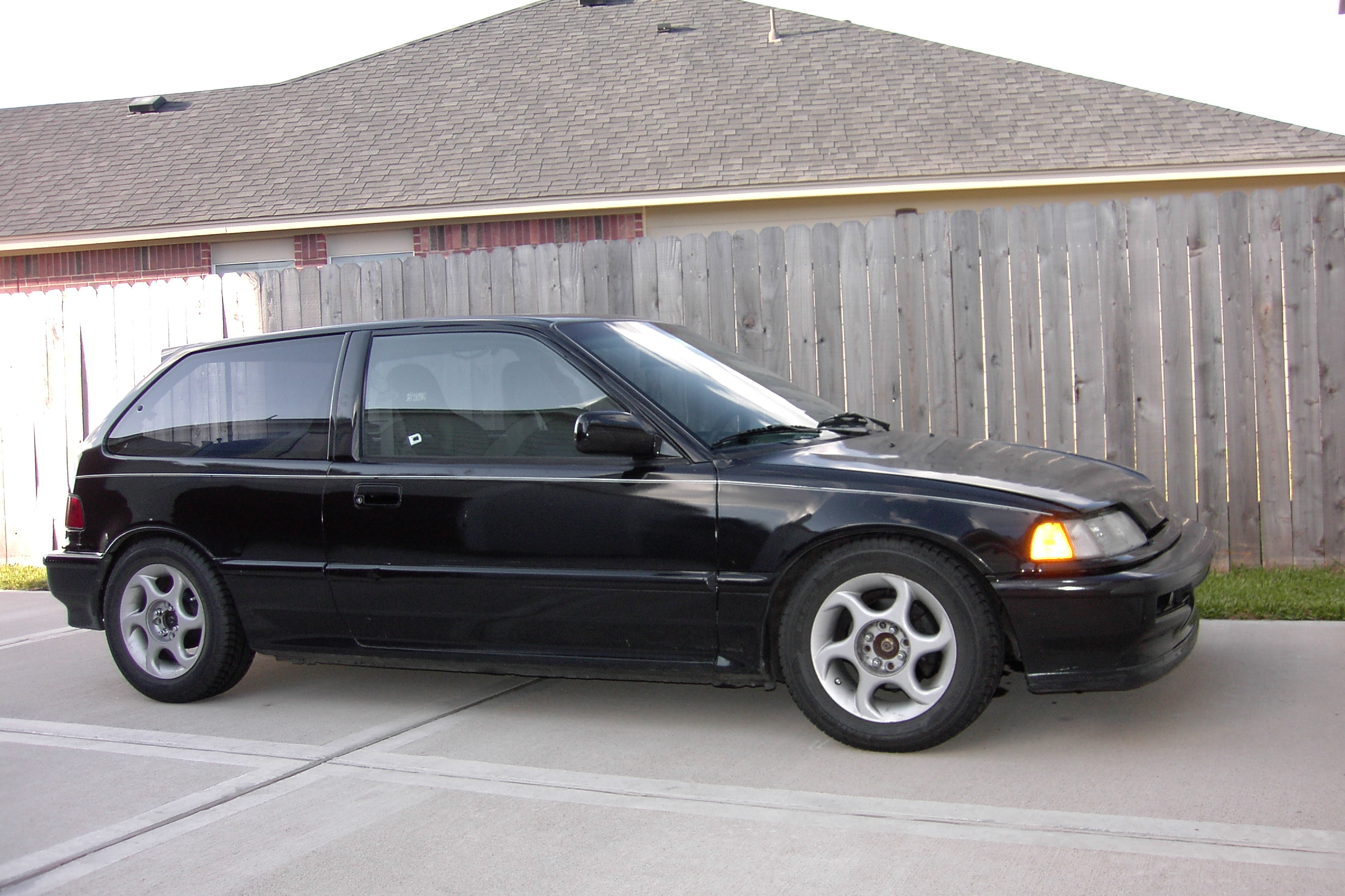 Photograph of a 1991 Black Honda Civic Si